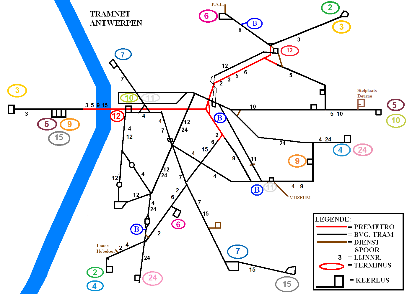 Map of the Antwerp Tramway network until 1 september 2012. Red lines = Premetro tunnel Black line = surface tramway track Brown line = Service track, (nearly) not used in regular traffic "B" = NMBS railway station